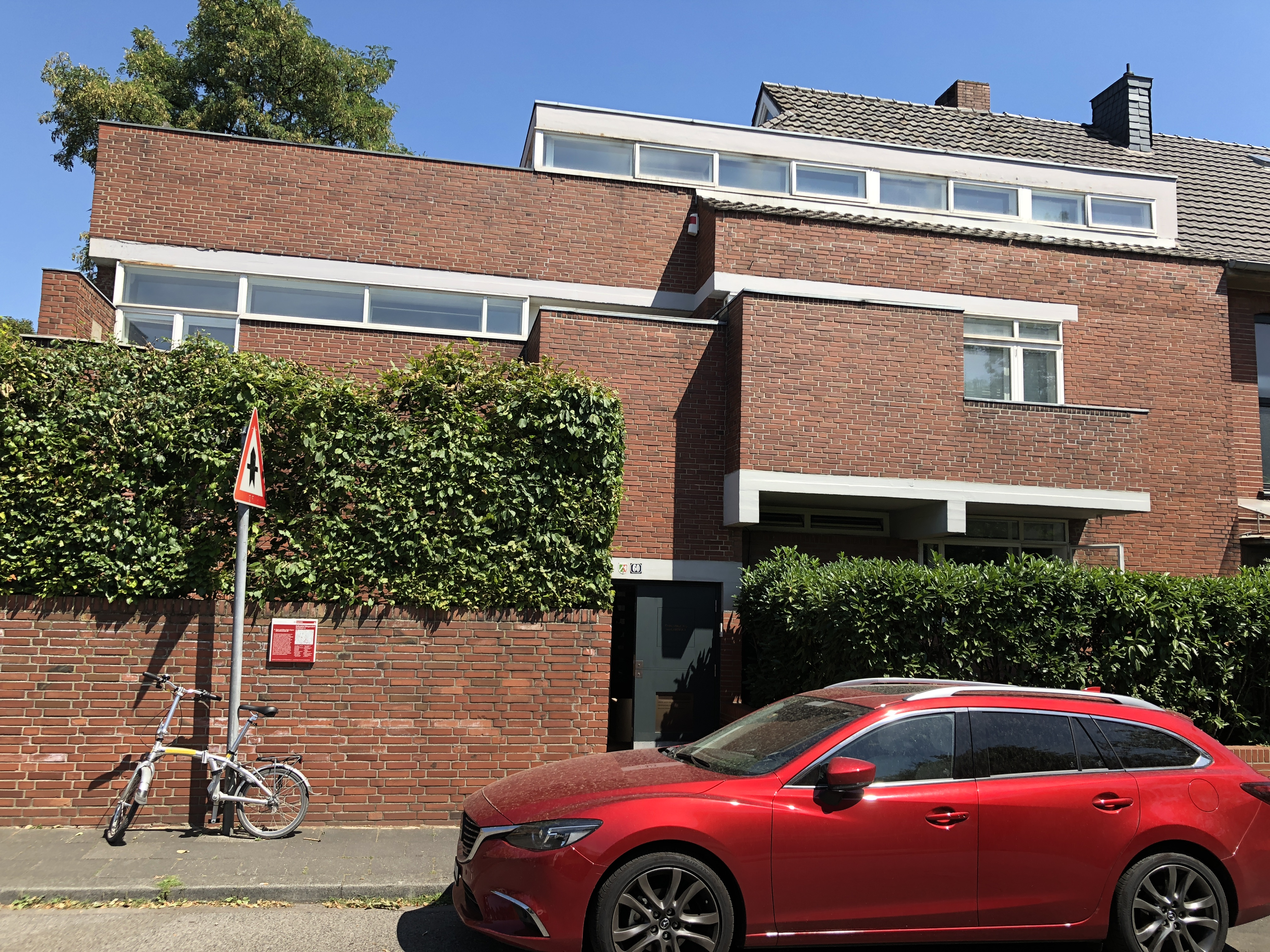 House of German architect Oswald Mathias Ungers on Belvederestraße 60, Müngersdorf.